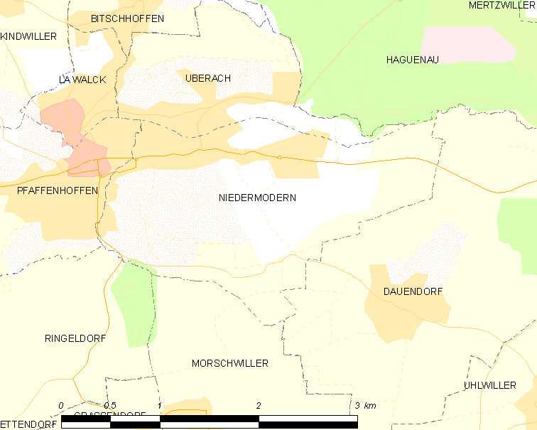 Map of French municipality